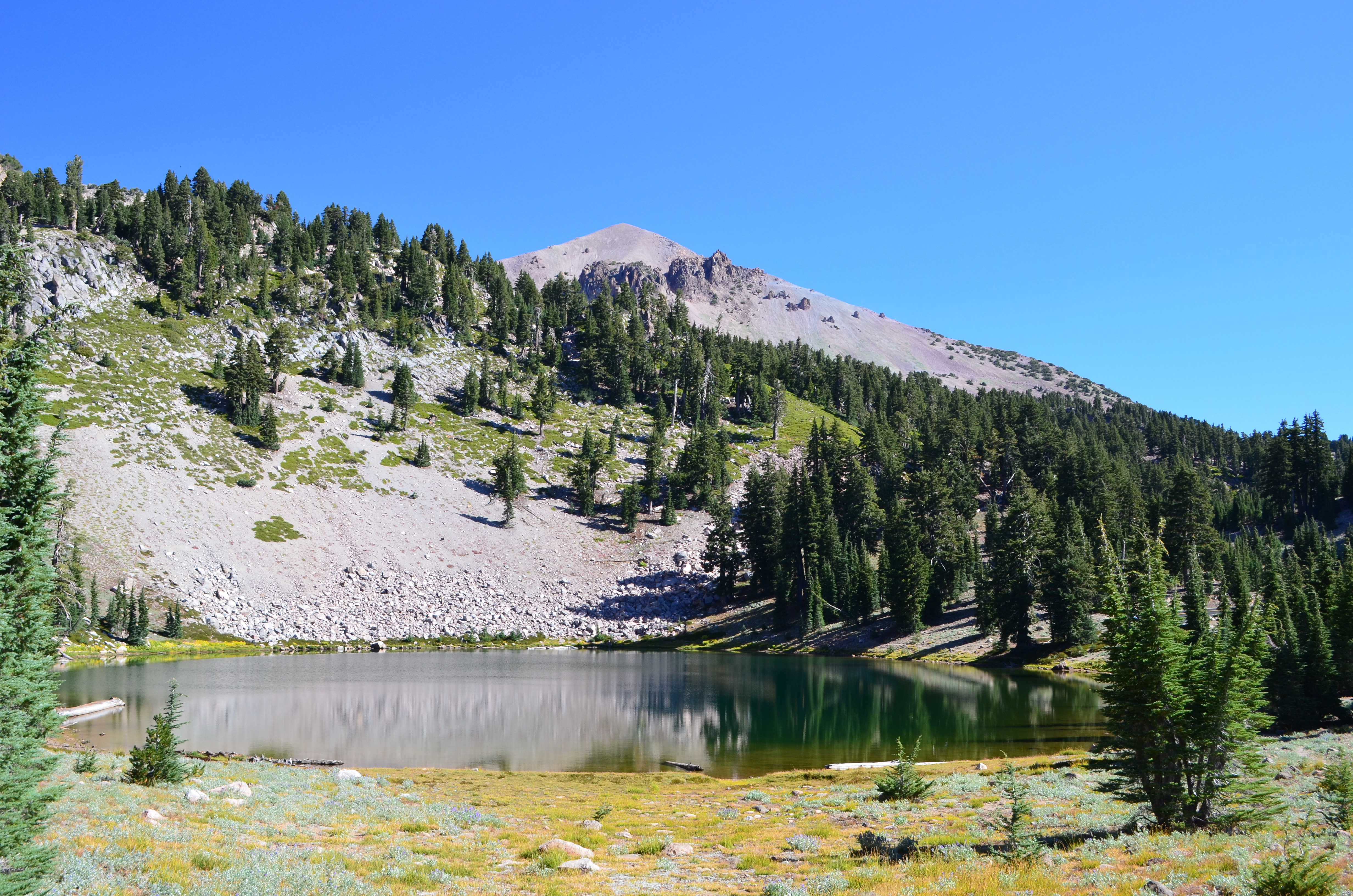 Fall colors begin on the south shore of Emerald Lake